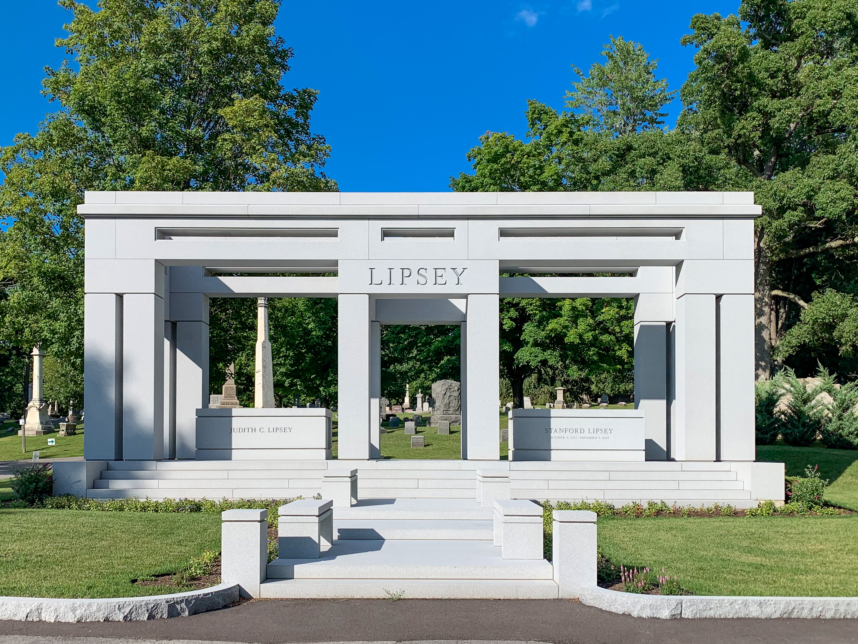 Grave of Stanford Lipsey, Forest Lawn Cemetery, Buffalo New York